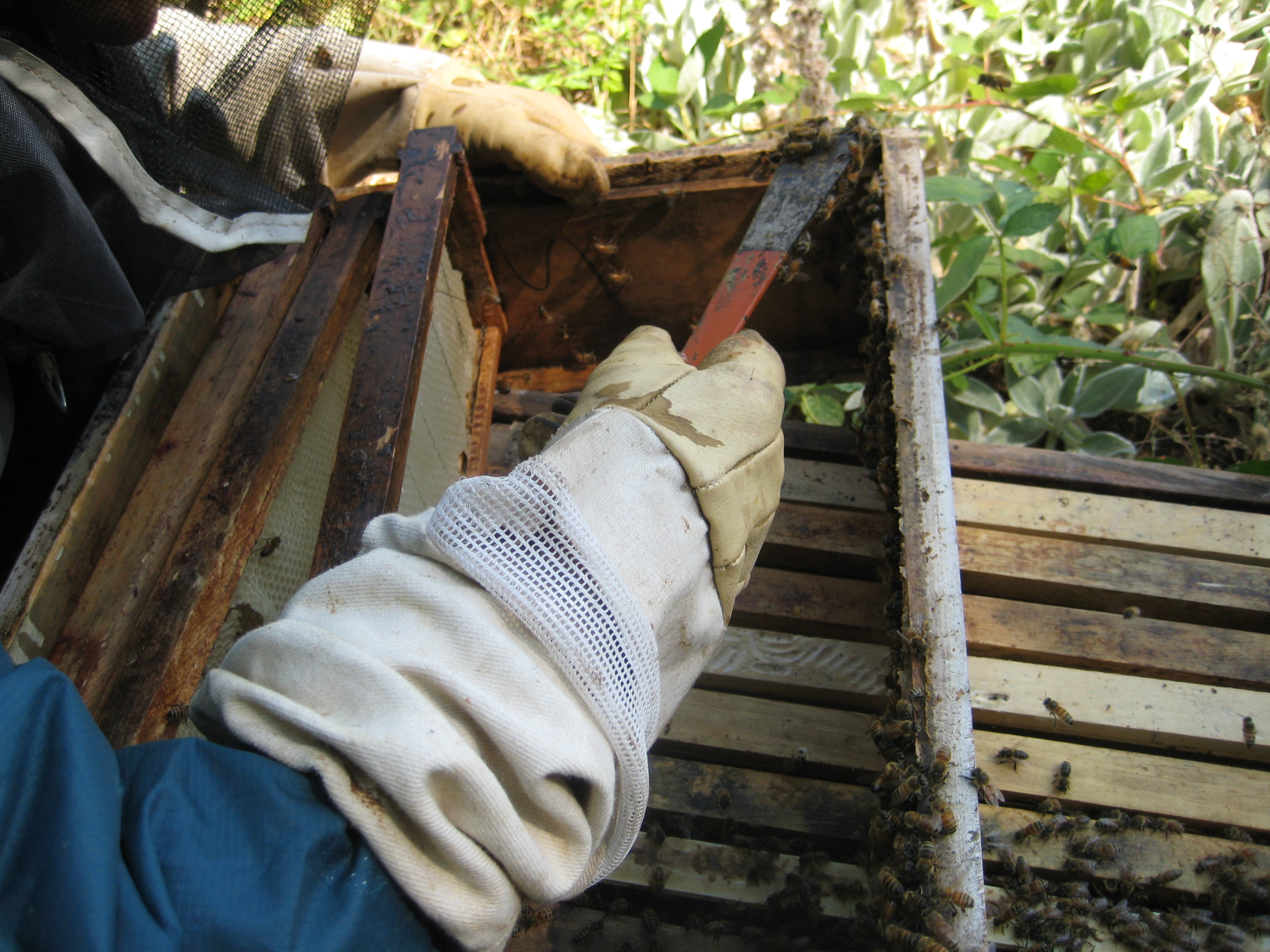 Scraping propolis from the sides of the bee box, California, USA